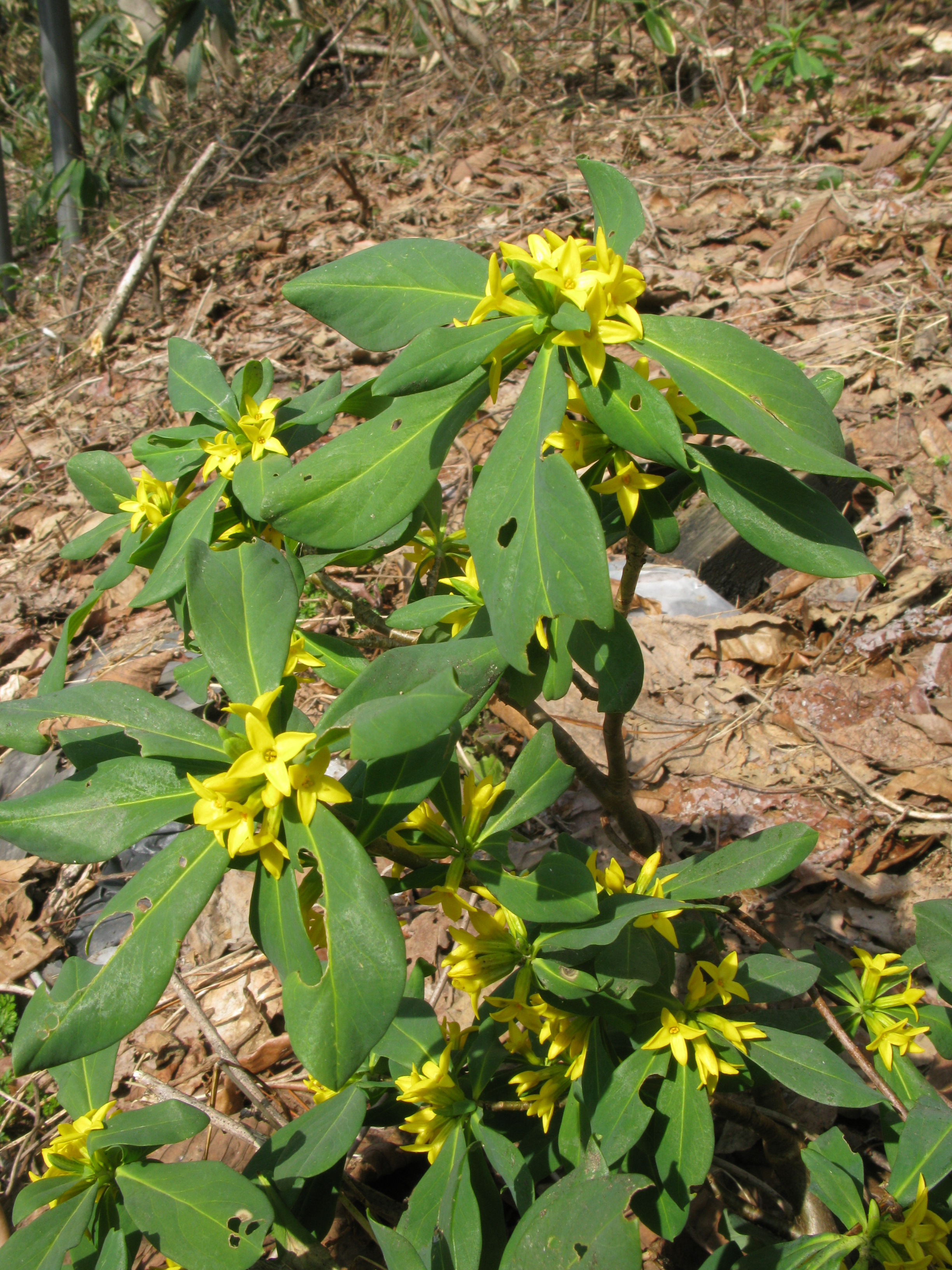 Daphne jezoensis, Aizu area, Fukushima pref., Japan